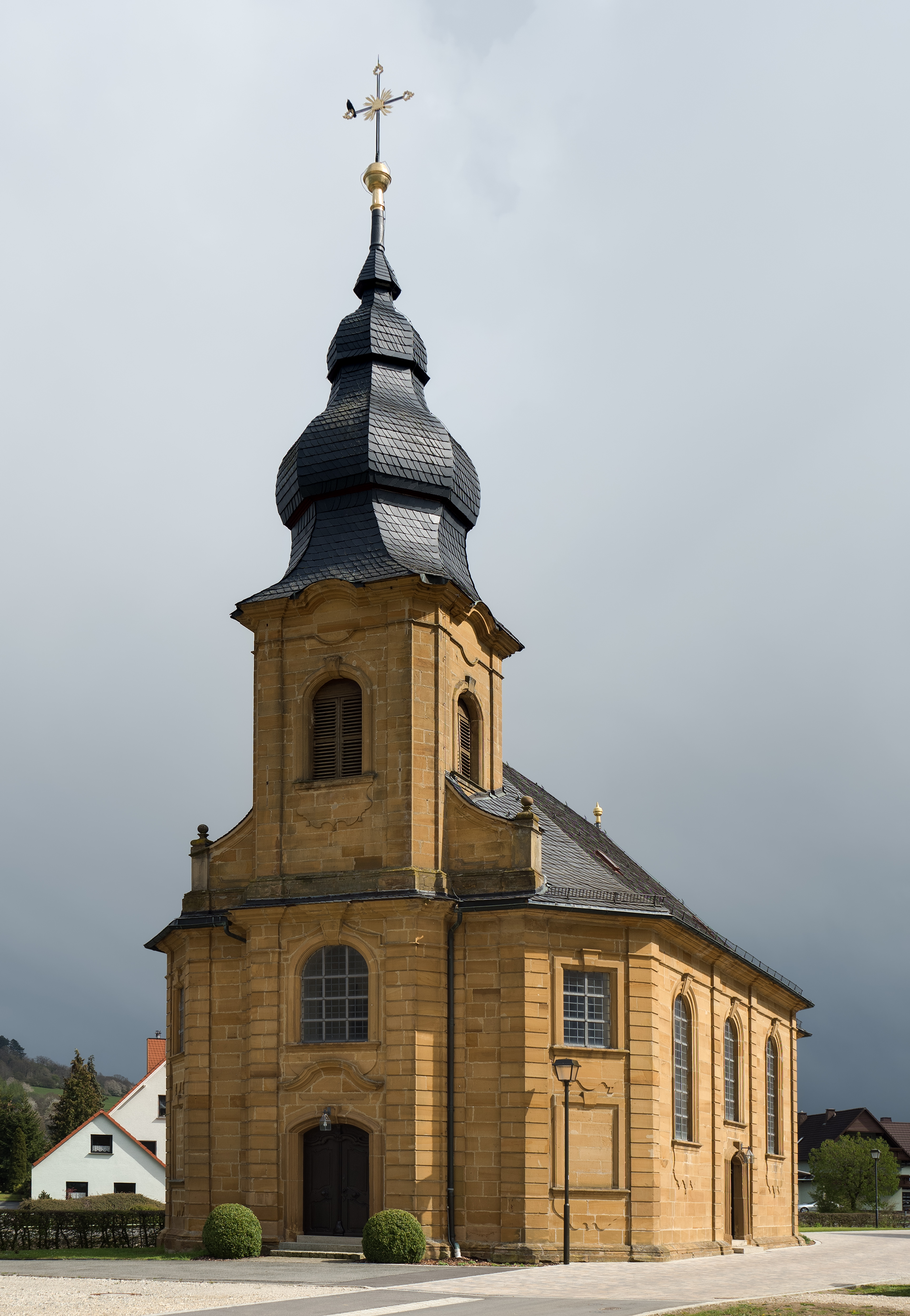 St. Nicholas and Gumbertus in Stublang